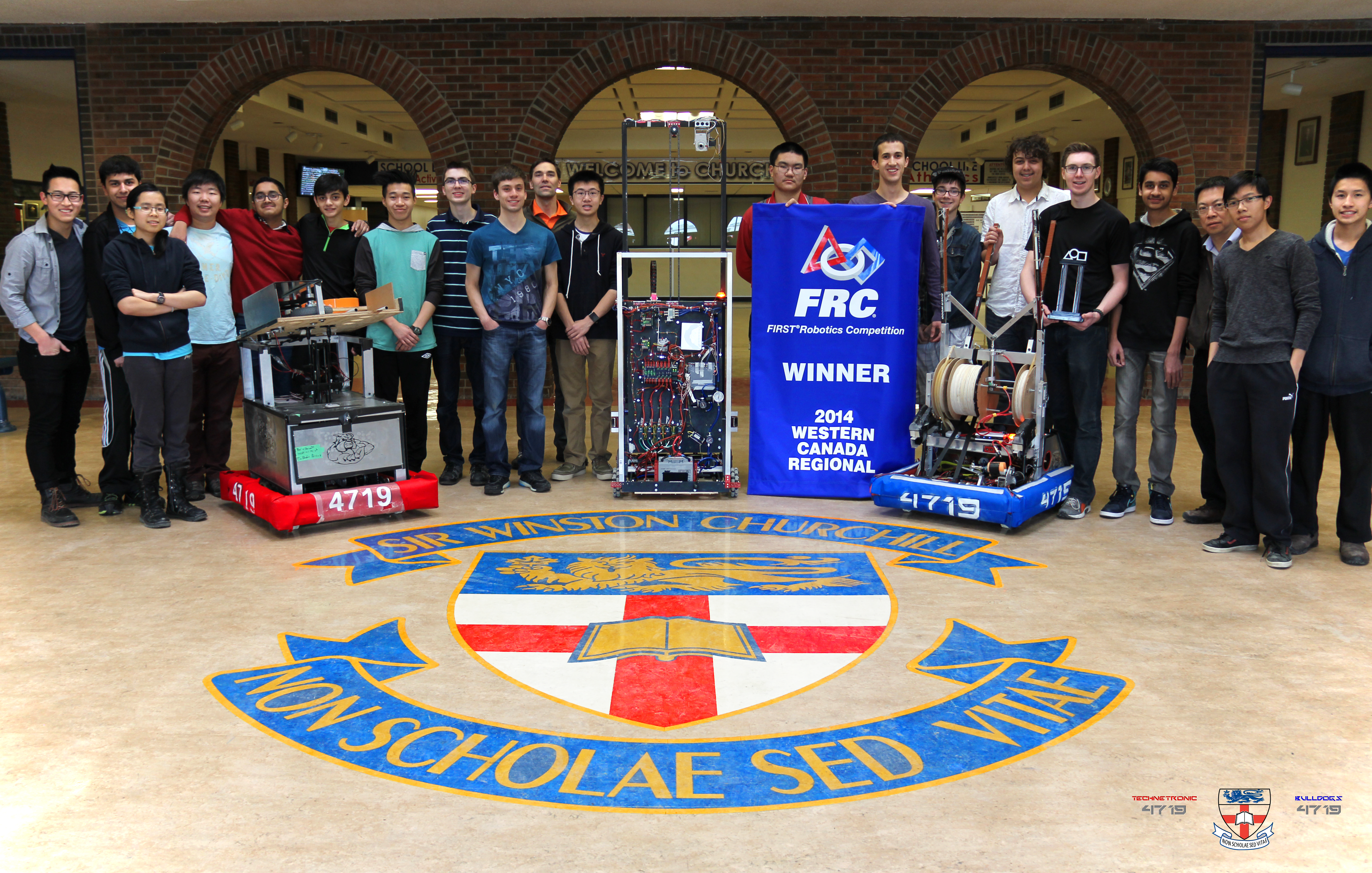 SWC Photo